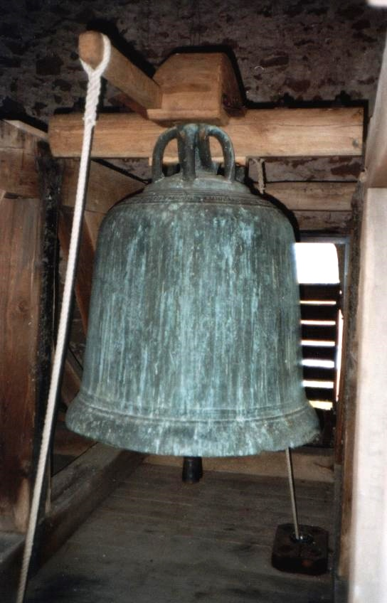 Lullusglocke in Bad Hersfeld, the oldest dated, casted bell in Germany. According to its inscription, the bell was made in 1038